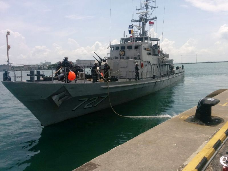 Indonesian navy minesweeper KRI Pulau Rangsang (727) depart to training area during Joint Minex 17/2017 Exercise with Republic of Singapore Navy ships.